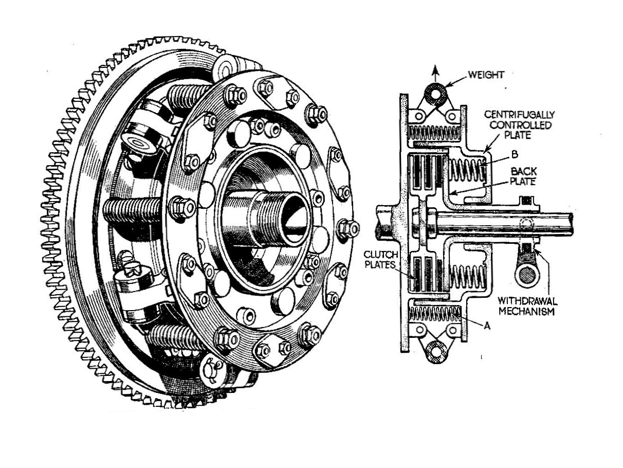 Newton centrifugal plate clutch (Autocar Handbook, 13th ed, 1935).jpg